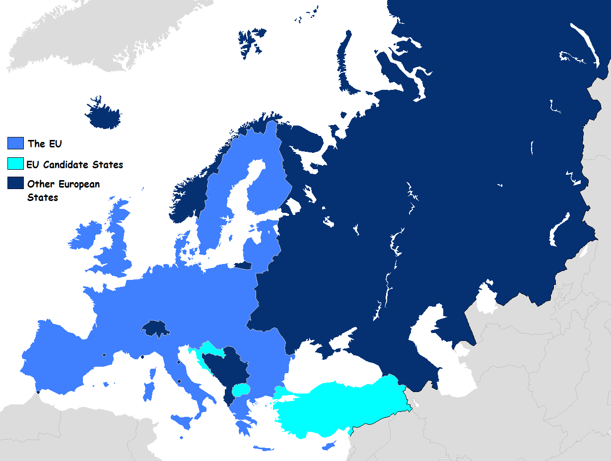 EU, Candidate countries, other European countries.